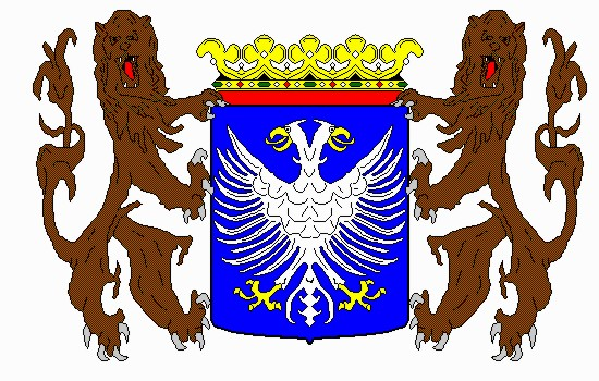 Coat of arms of Arnhem, province of Gelderland, The Netherlands.